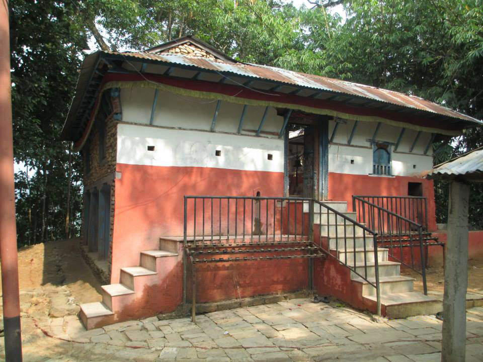 उदिपुर कालिका